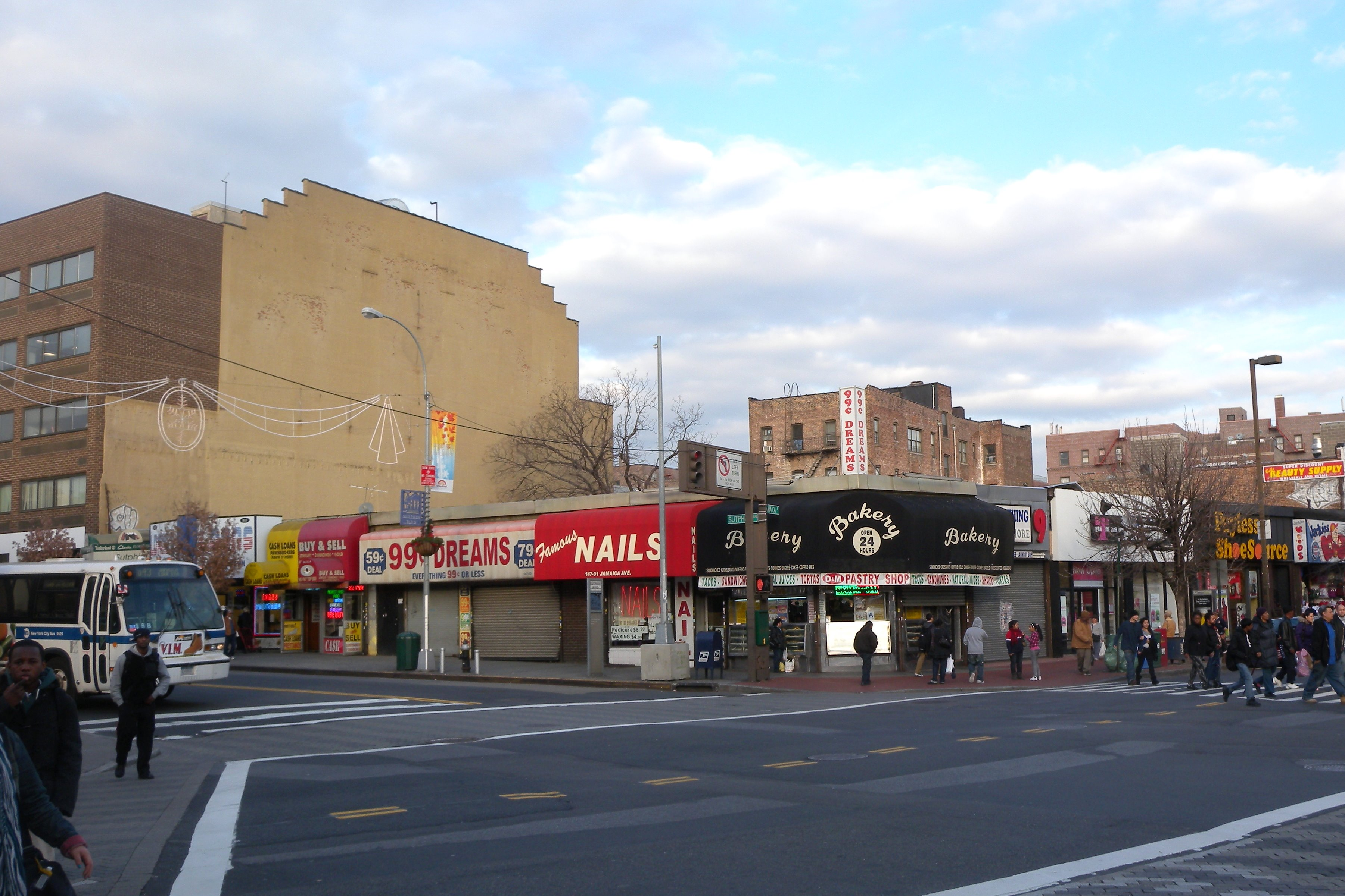 Looking northeast across Jamaica Avenue at Sutphin Blvd on a mostly cloudy afternoon.